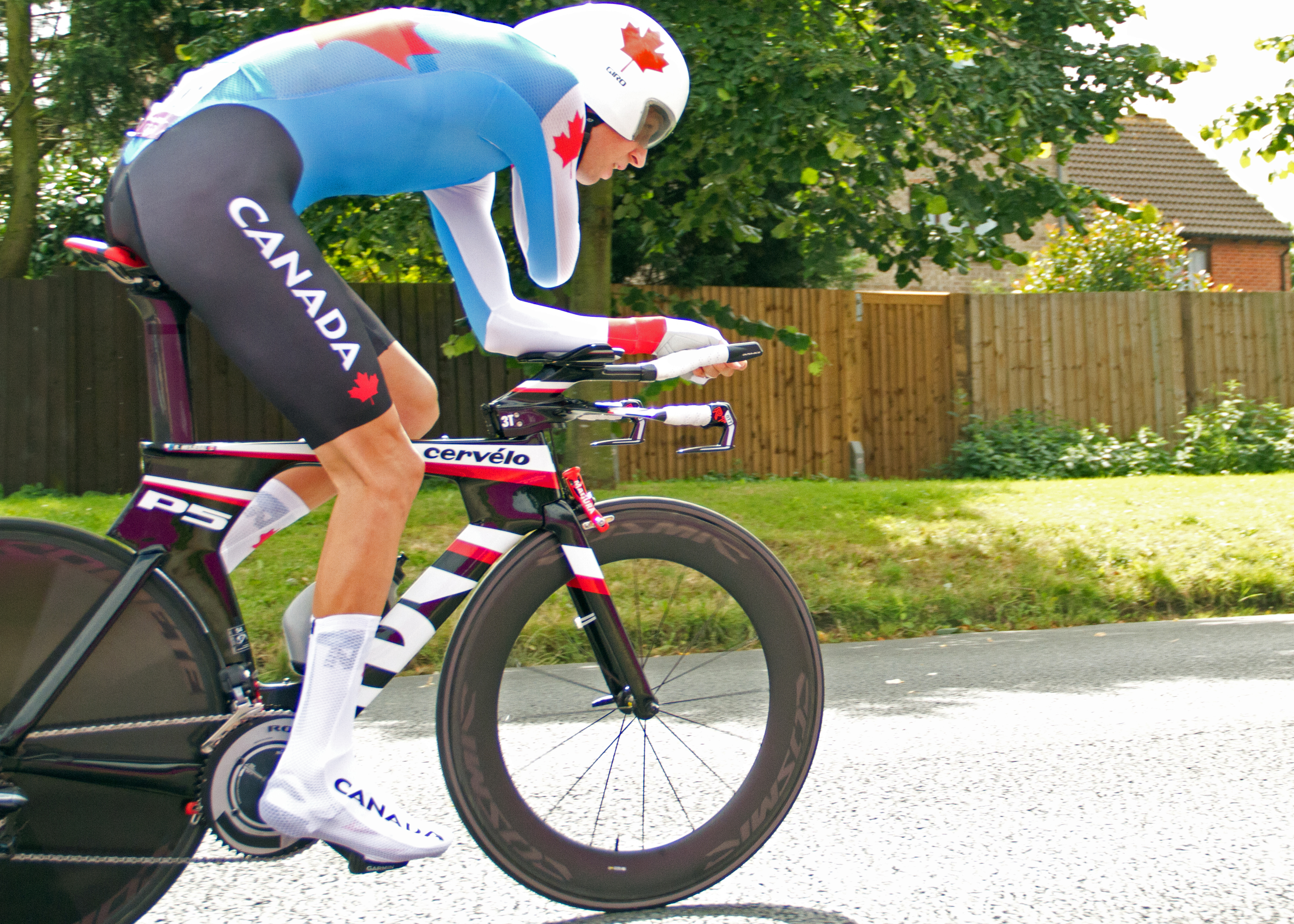 Ryder Hesjedal during the individual time trial (ITT) during the 2012 Olympics.